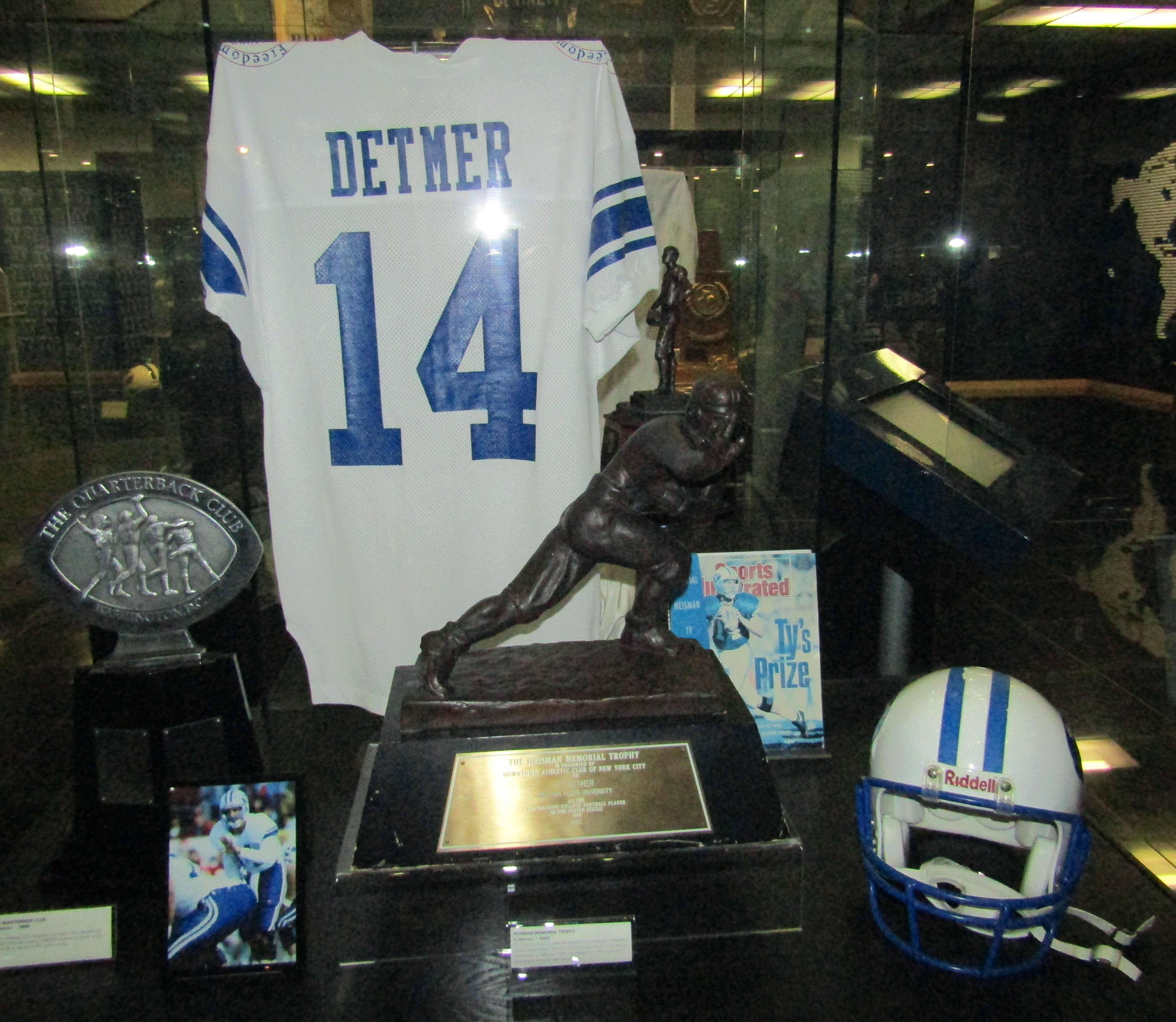 Football jersey and trophy of Ty Detmer at the BYU Legacy Hall.